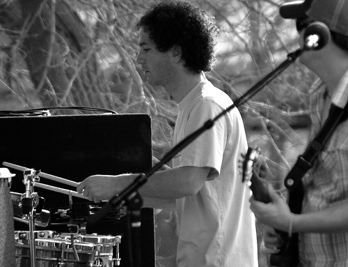 Andy Farag of Umphrey's McGee on Earth Day 2007 at the Lincoln Park Zoo in Chicago, Illinois.